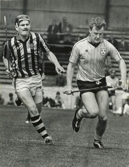 Shane Dalton in action against Kilkenny Leinster semi final 1986